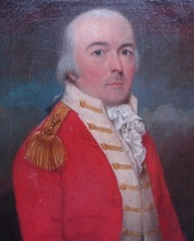 Charles O'Hara, British officer, Governor of Gibraltar